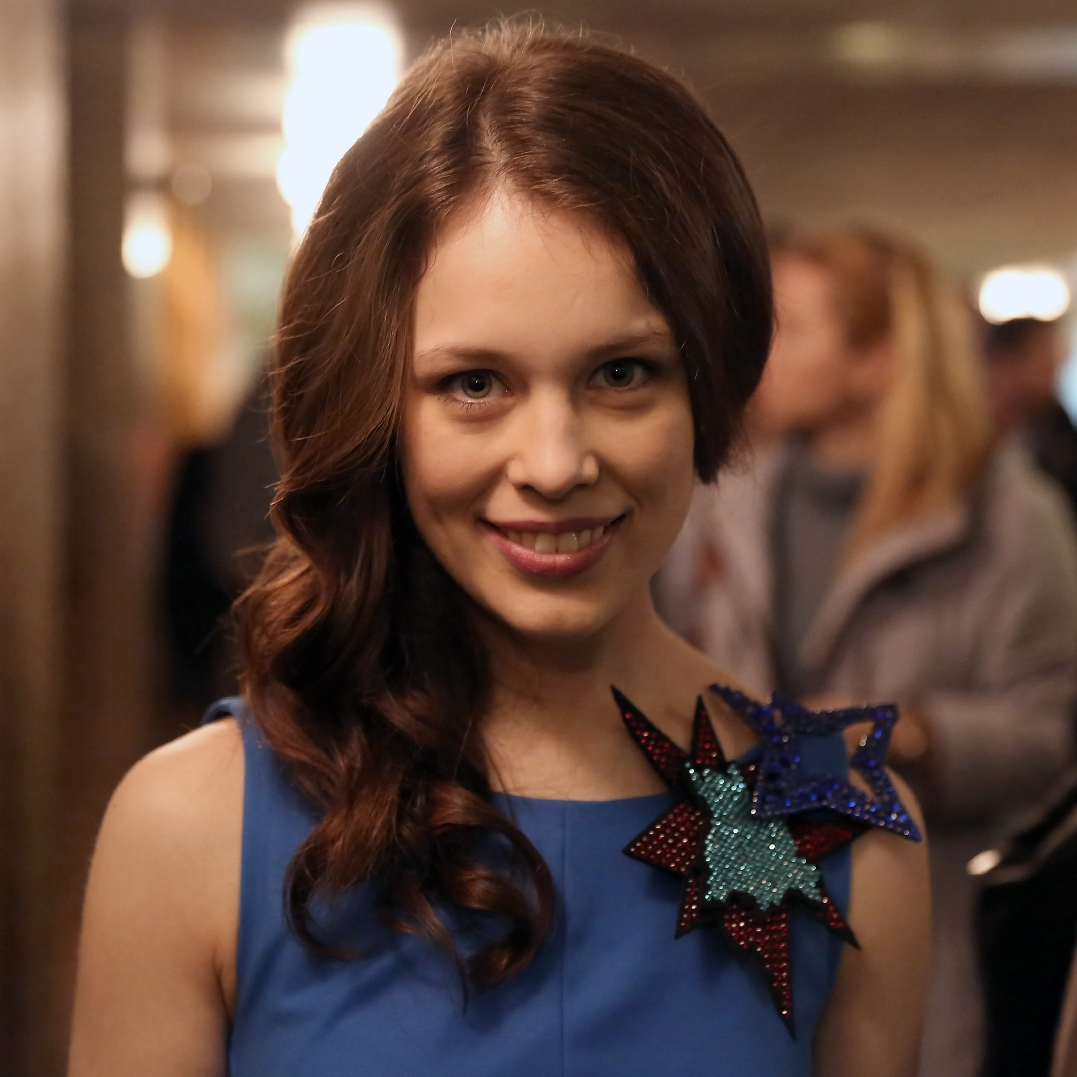 Paula Beer at the Austrian premiere of Das finstere Tal at Gartenbaukino in Vienna.